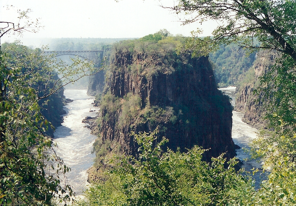 Victoria Falls gorge and bridge, seen from the turn of the hairpin bend below the Falls, after good rains. The penisular cliffs are in Zambia, the outer cliffs in Zimbabwe. In the top left-hand corner can be seen the white mist of the Falls themselves, where the Zambezi plunges into the gorge. Taken in April 1995 on Fujifilm.